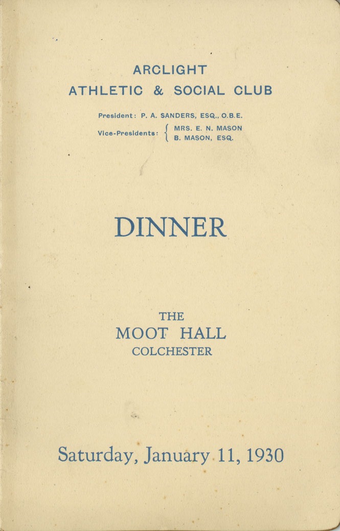 Arclight Athletic and Social Club dinner leaflet. Mason was Vice President of one of the company’s leisure clubs and regularly spoke at their dinners